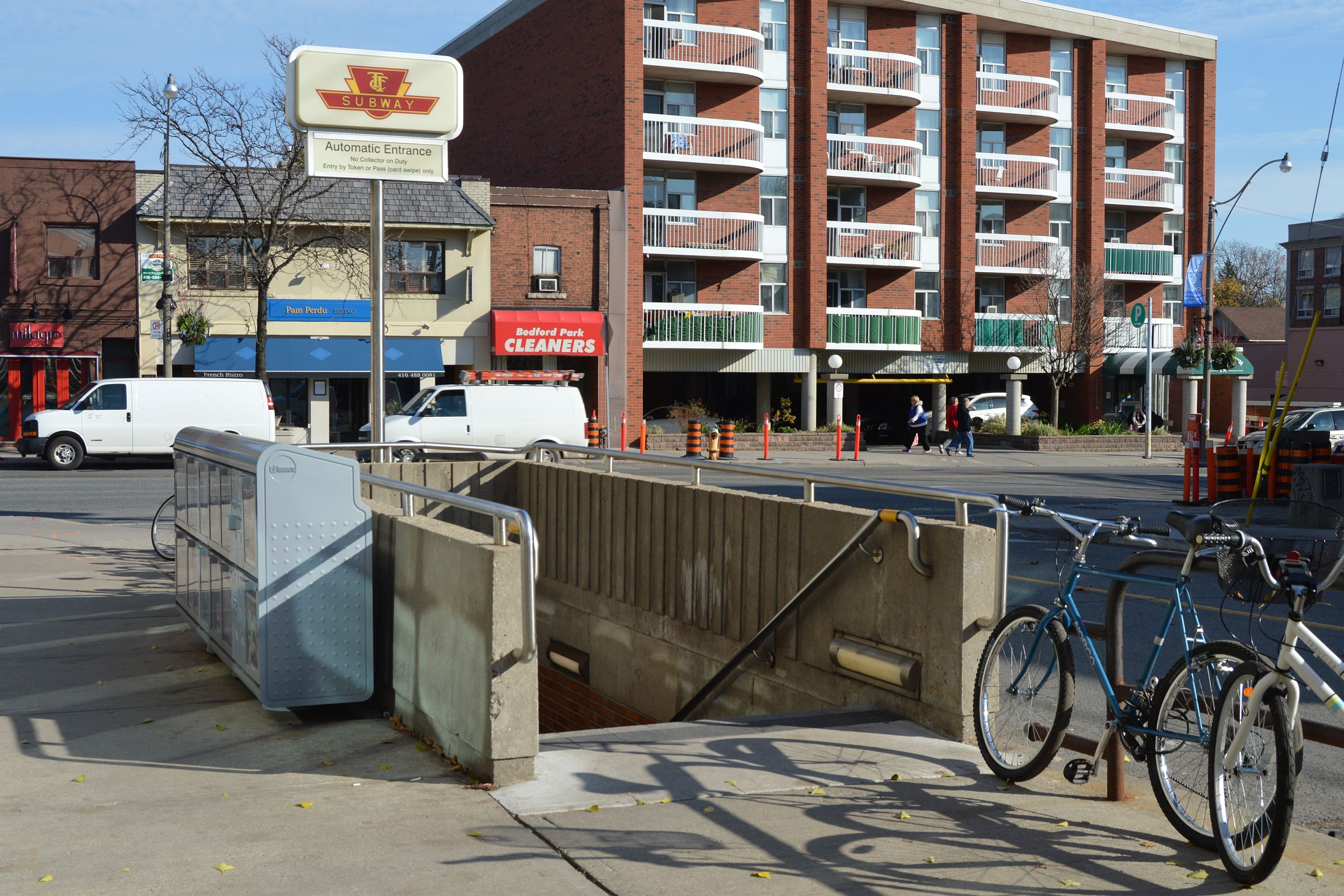 Bedford Park entrance to the Lawrence TTC subway station in Toronto.